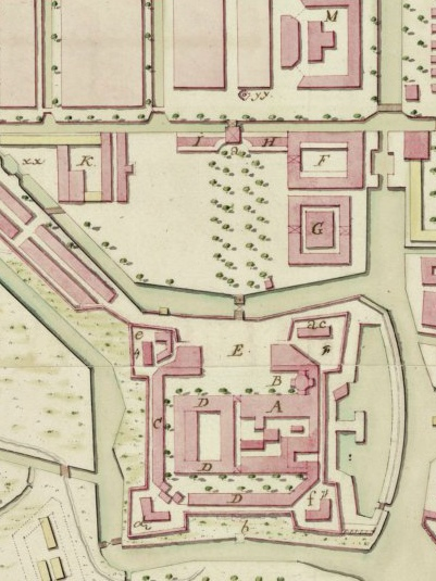 Close-up of a map of Batavia in 1762, showing the castle (Dutch: Kasteel) after modifications by governor general Van Imhoff. Top of the image is south.